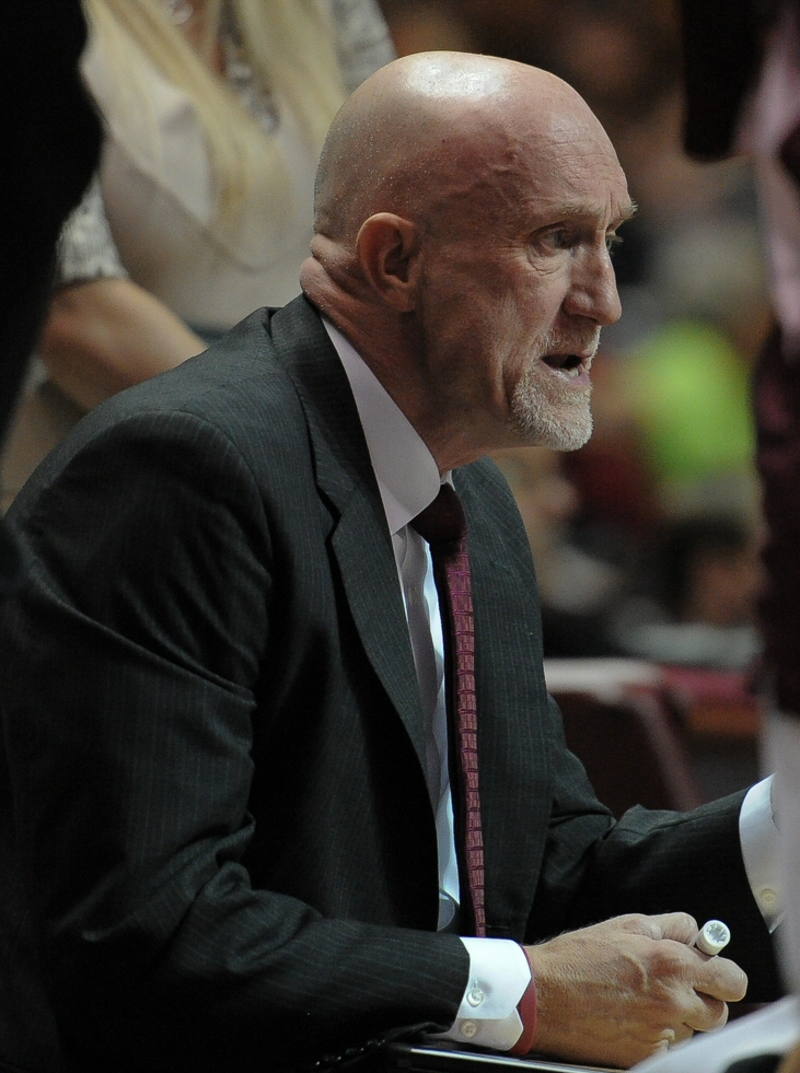 Dennis Wolff addresses the team against Robert Morris